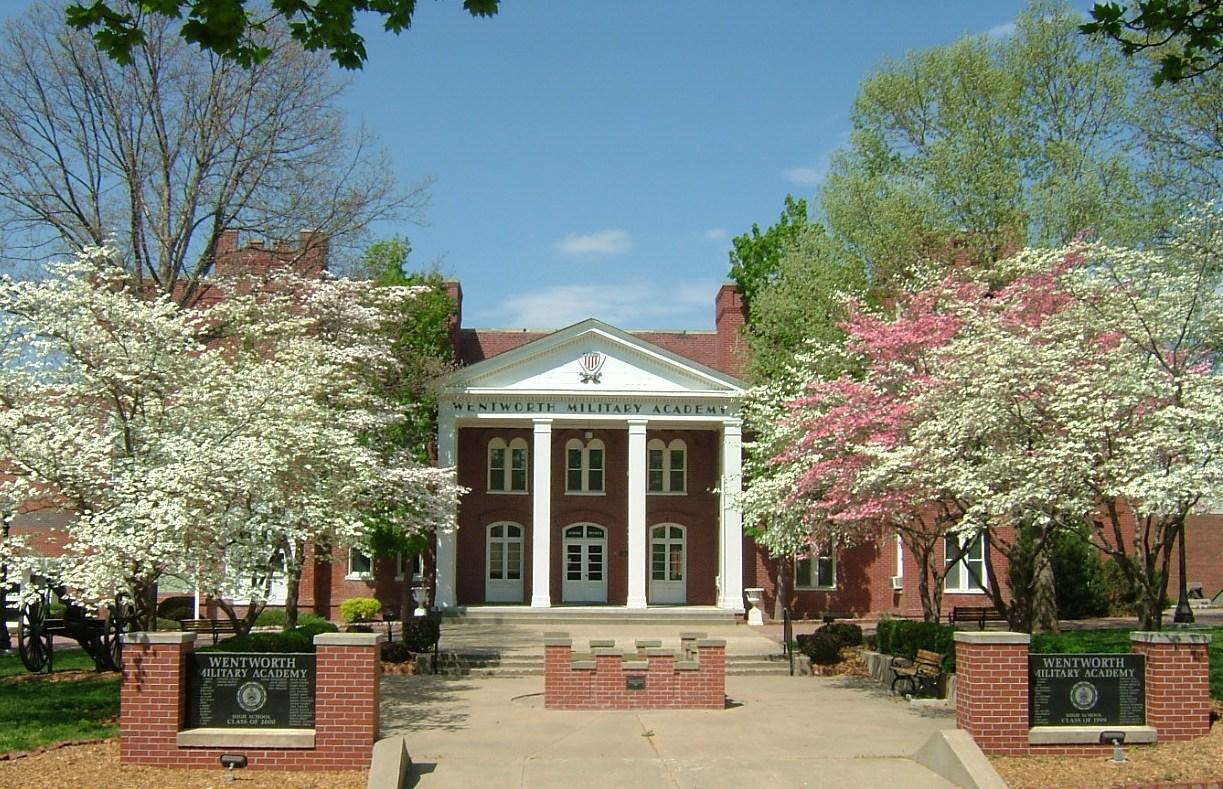 Wentworth Military Academy Administration Building Lexington, Missouri